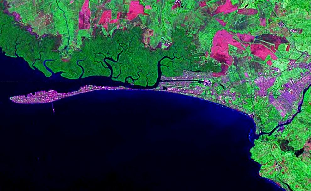 Screenshot of Nasa World Wind 1.4, with Geocover 2000 layout, showing the peninsula of Puntarenas on the Pacific coast, in Costa Rica.